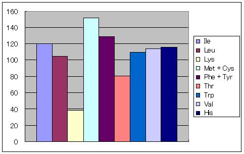 Amino acid score of white flour